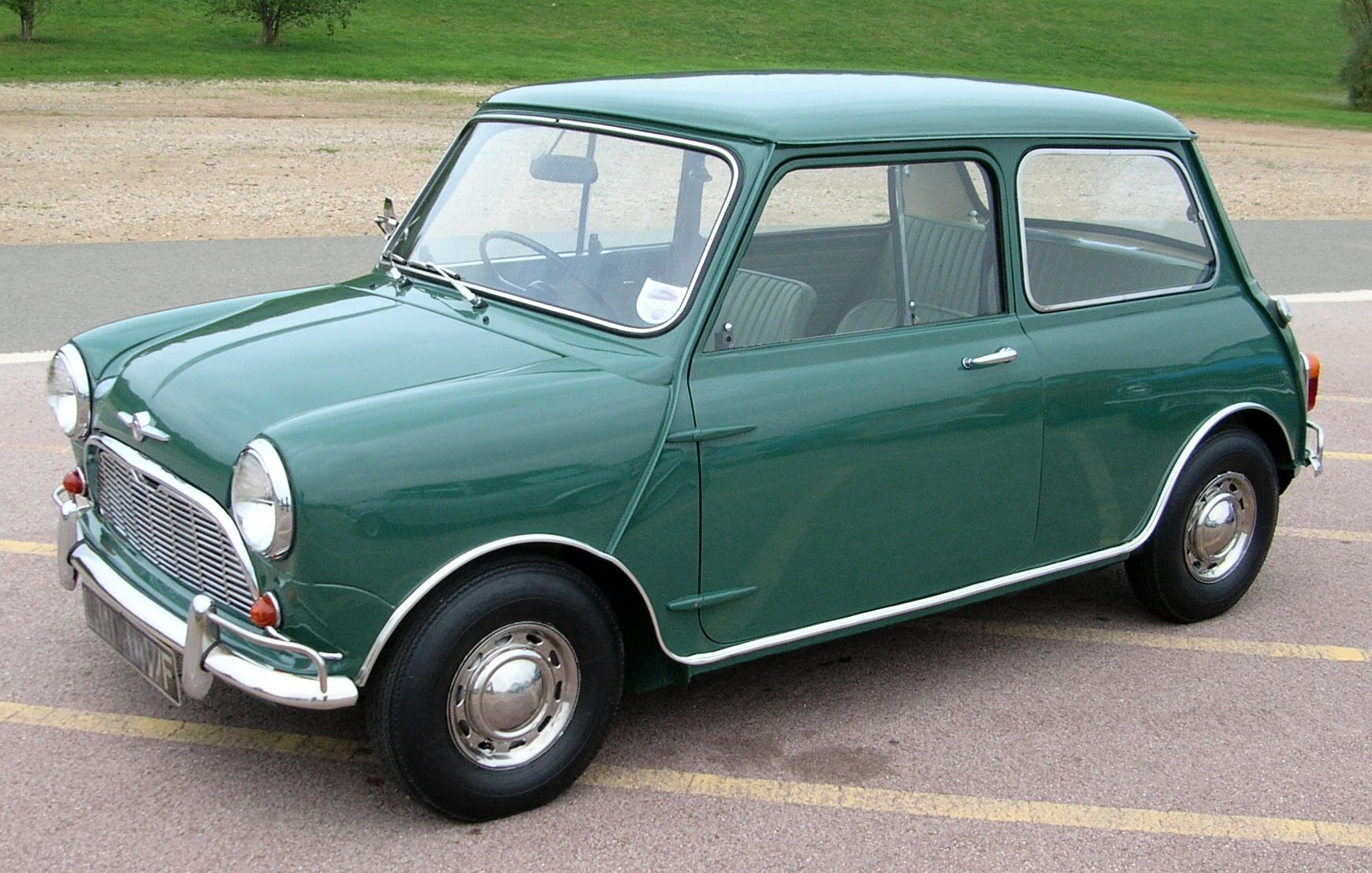 A 1967 Morris Mini-Minor. Photographed at the Alec Issigonis centenary rally at the Heritage Motor Centre, Gaydon, UK.